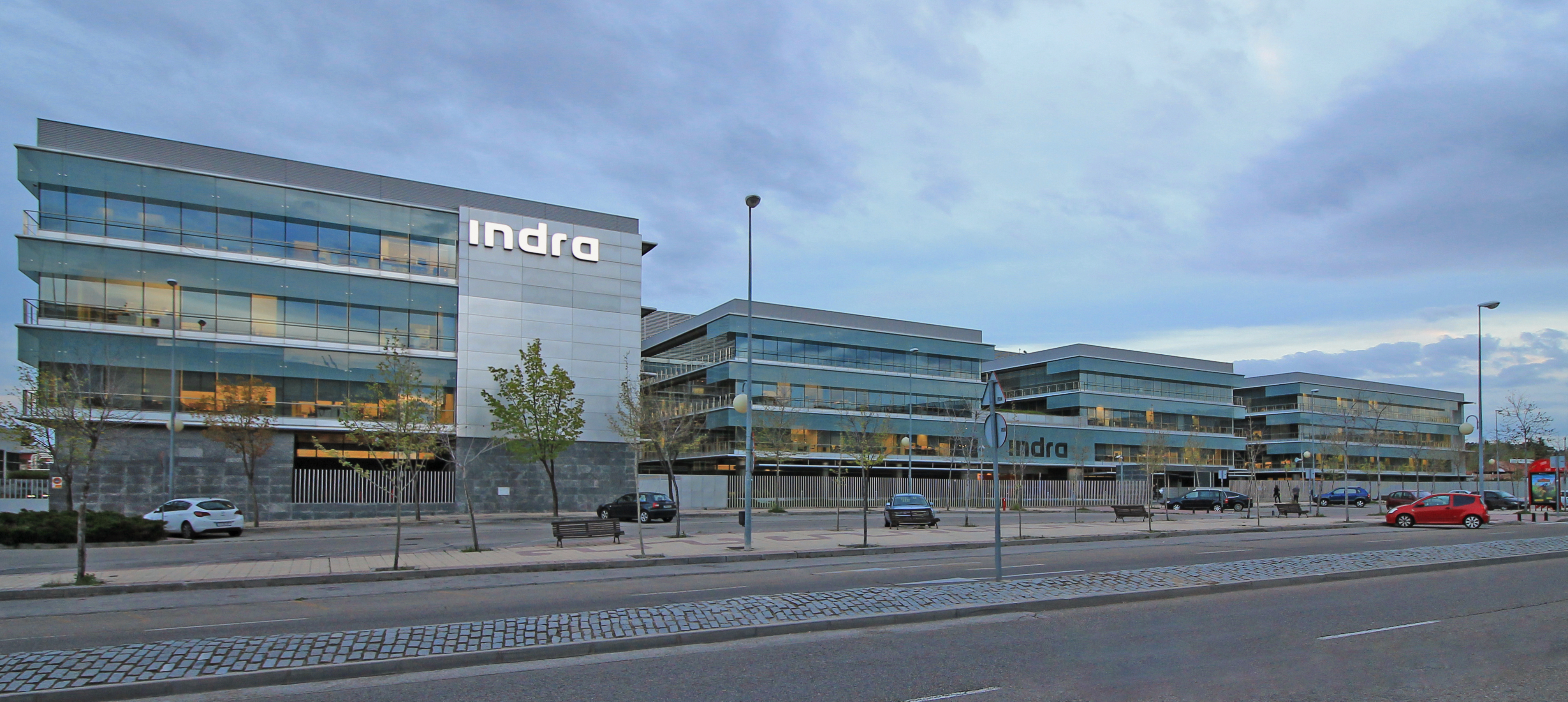 View of Indra headquarters at 35 Avenida de Bruselas (street) in Alcobendas (Community of Madrid, Spain).